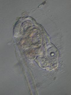 Photographed from plankton sample taken at Schouwen by author S.A.L.M.Kooijman